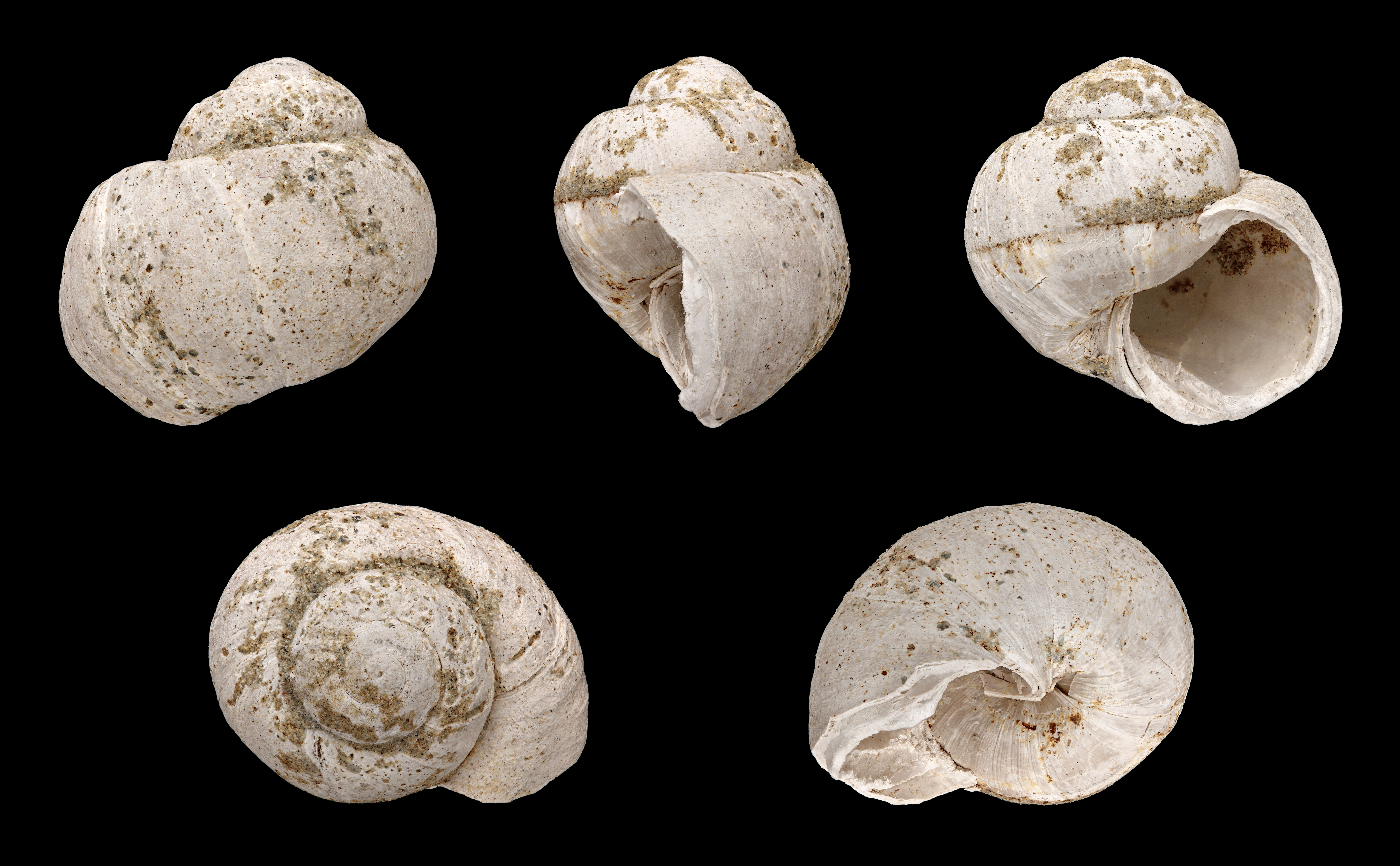 Diameter 1.9 cm; Miocene, Fresh / brackish water Molasse; Unterkirchberg near Ulm, Germany; Shell of own collection, therefore not geocoded.